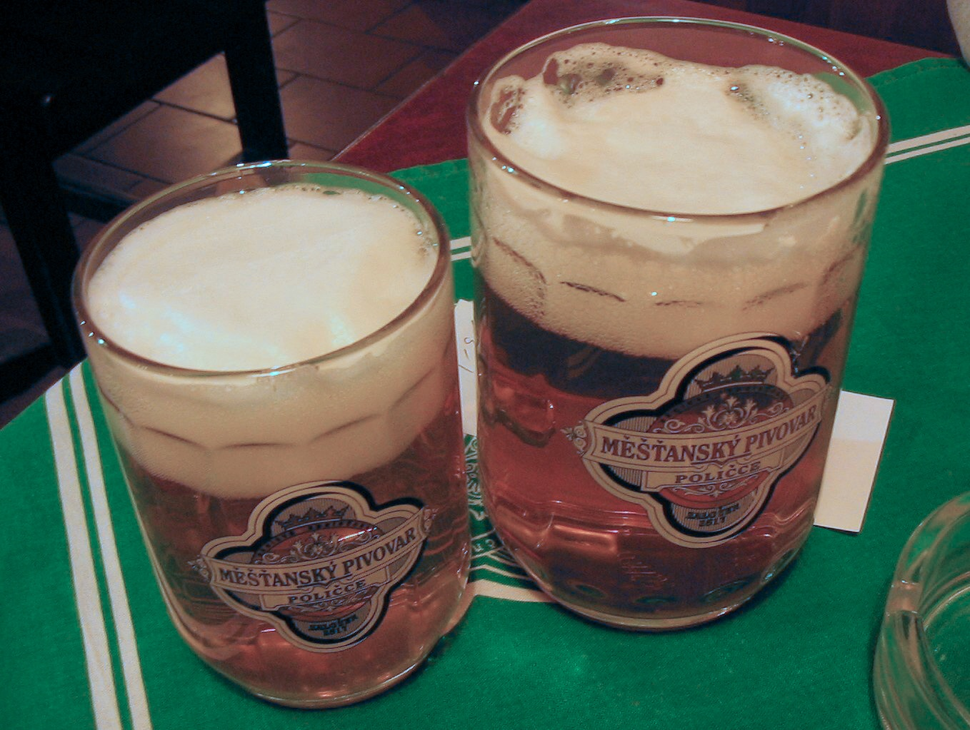 Glasses of Polička beer